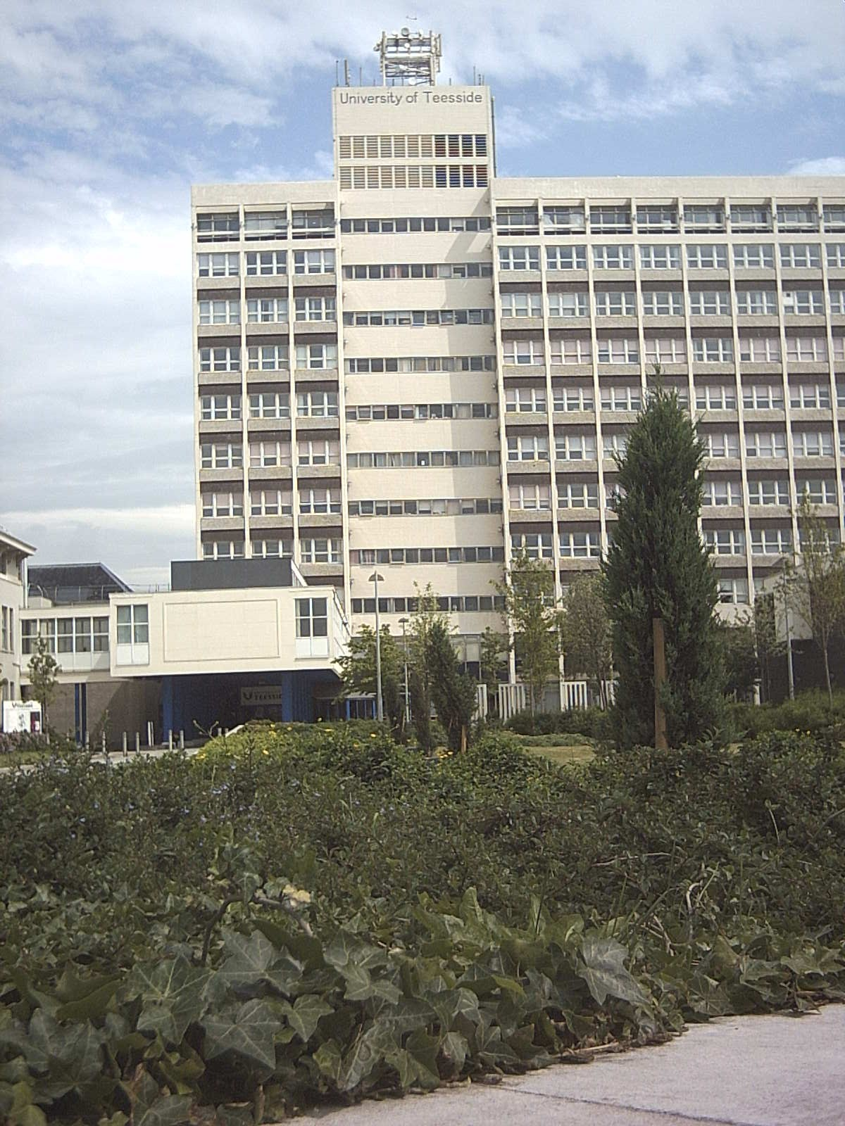 University of Teesside, Main Building.